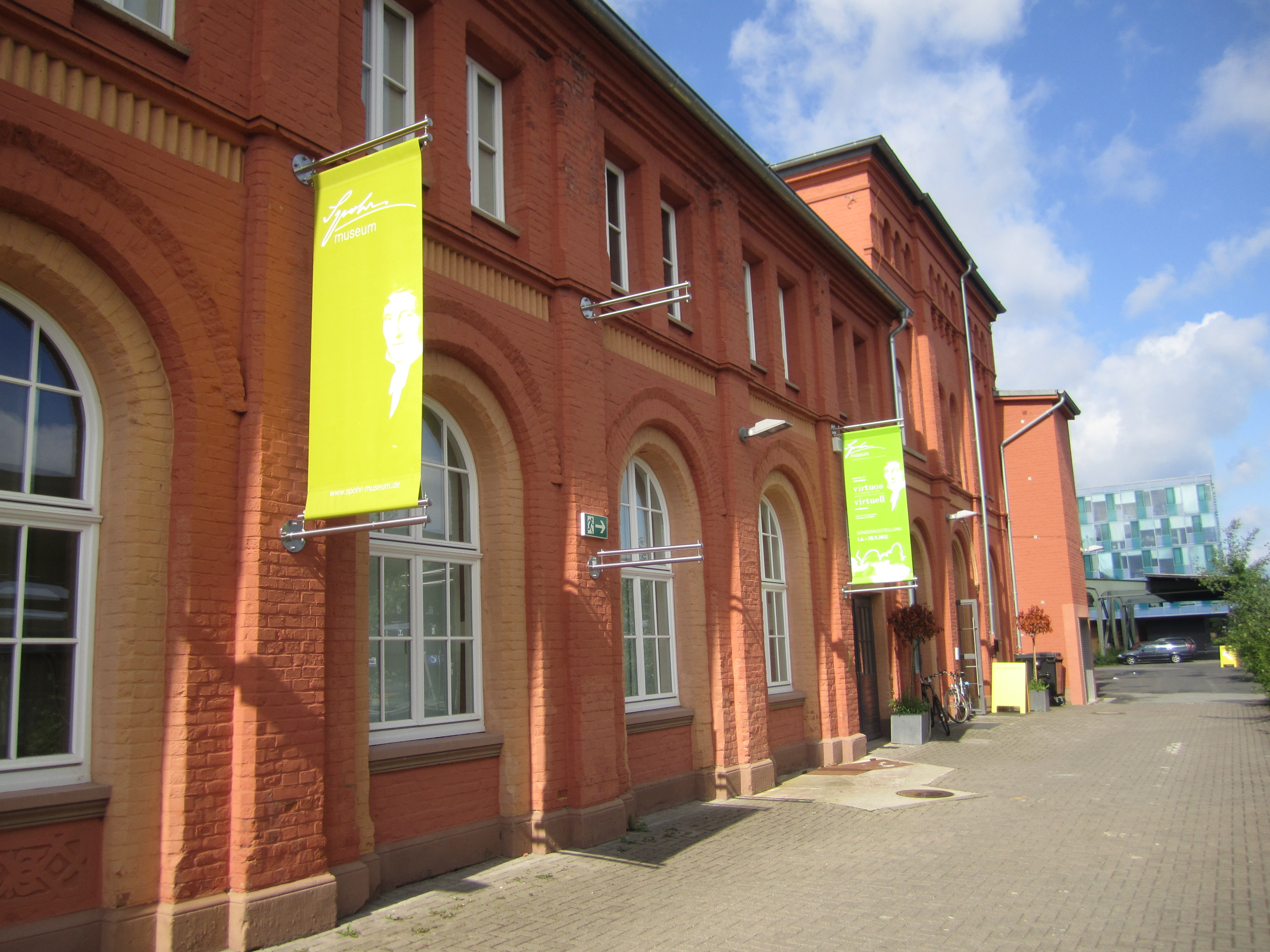 Spohr museum in Kassel, Germany.